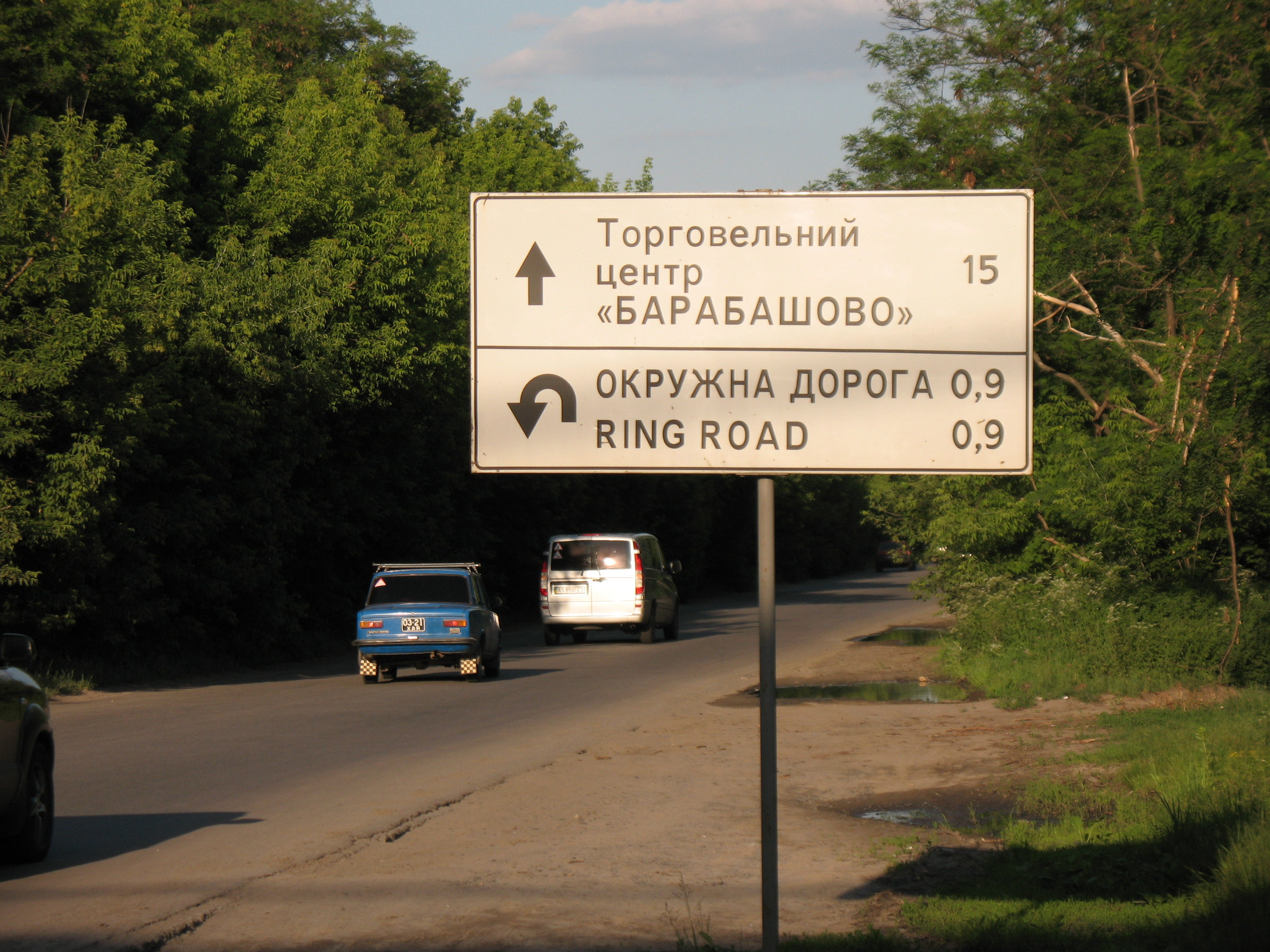 Kharkov Ring Road.